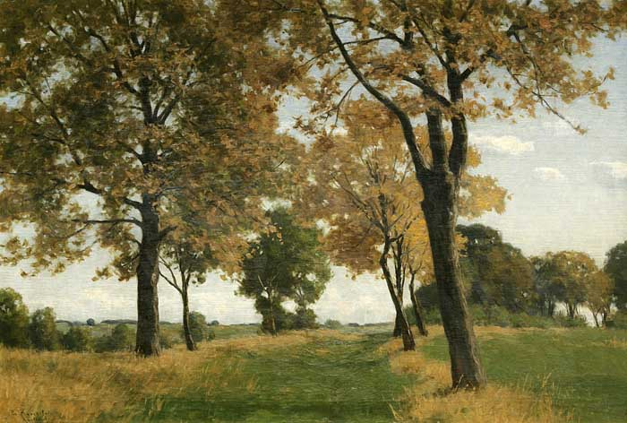 Autumn landscape